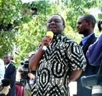 Morgan Tsvangirai at election rally 3 Mar 2002